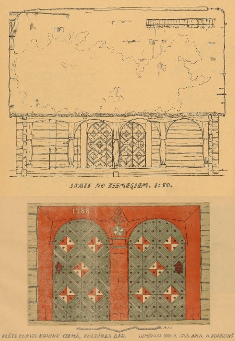 Granary of the farm Dižgailis in the village Koniņciems, Courland 1921. View from north drawn by J. Biķis and detail drawing of door by H. Kundziņš. The log cabin has a loggia with pillars that support the thatched gable roof.